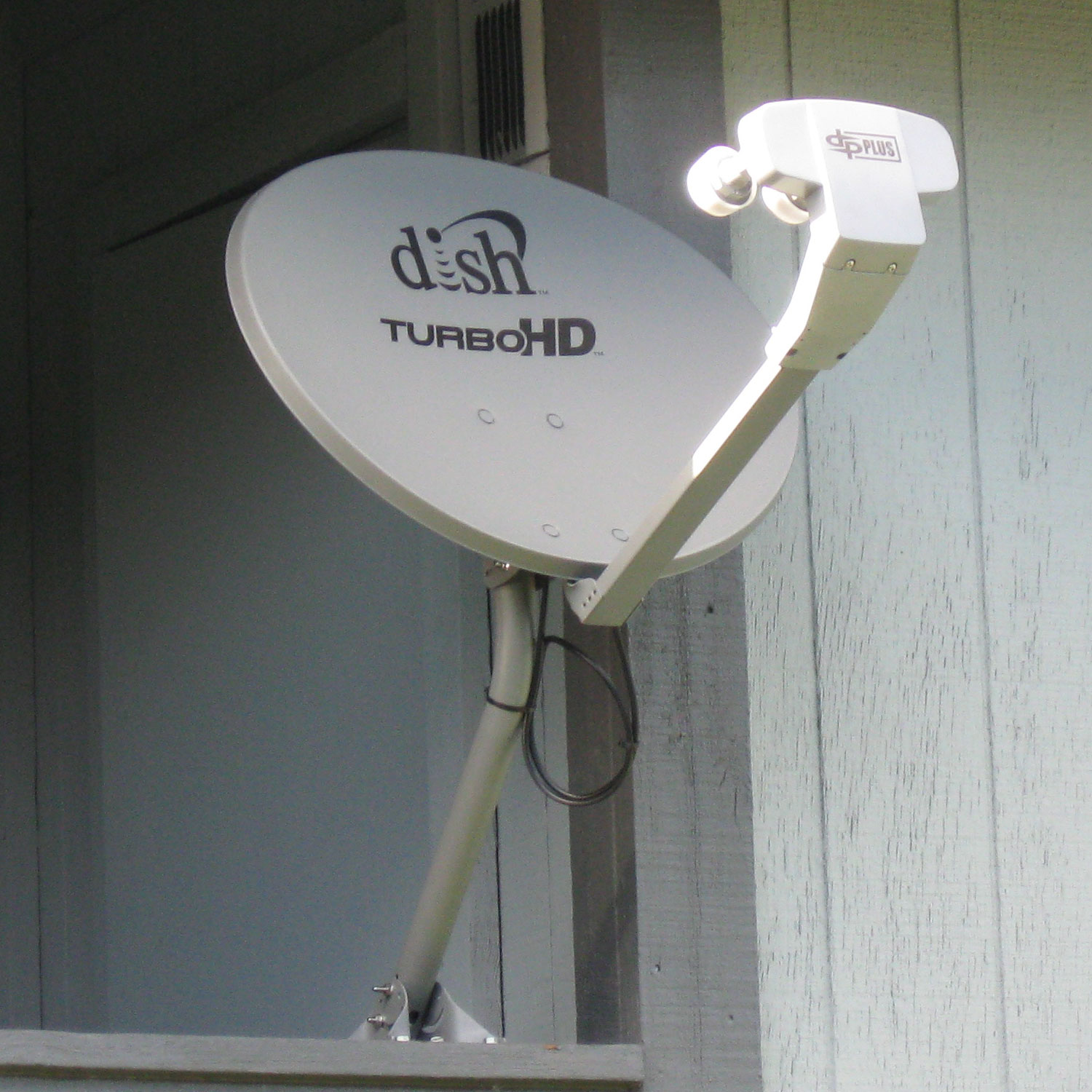 Dish 1000.4 (with the TurboHD branding), with a DP Plus triple LNB.